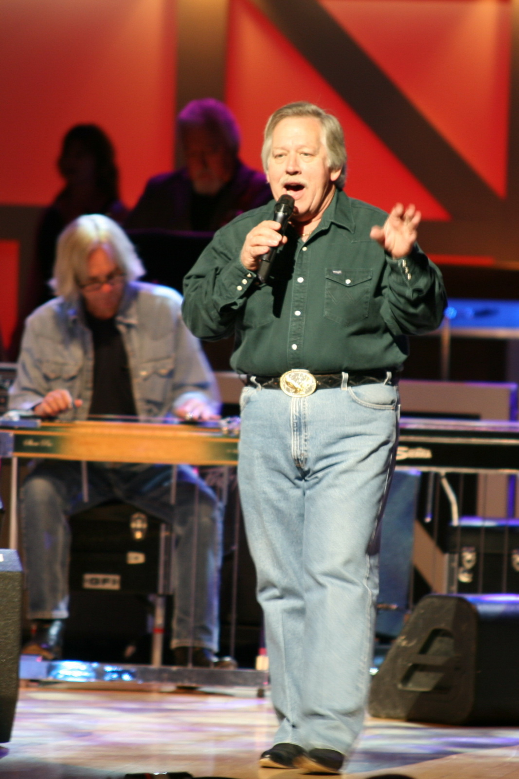 John Conlee performing at the Grand Ole Opry in 2007